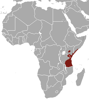 Northern Greater Galago (Otolemur garnettii) range